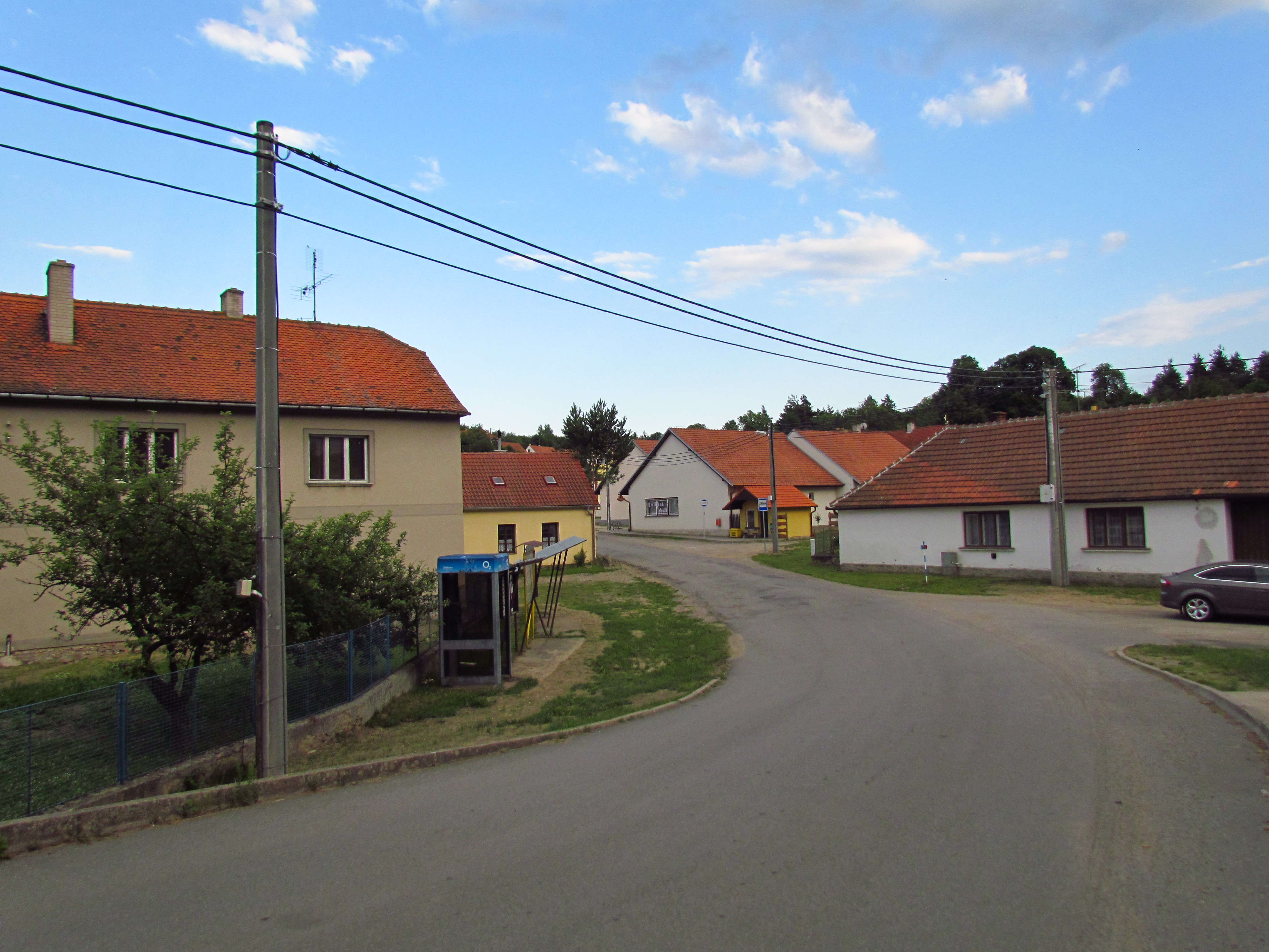 Center of Biskupice, view from bridge, Třebíč District.